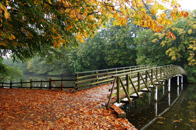 White Bridge, Hartsholme Country Park, Lincoln I love Hartsholme Park, but it is badly in need of some new investment. A recent survey described it as "well loved but not well looked after" (I might be paraphrasing a bit here, but that was the essence). The Rangers do a great job on a limited budget, but there are plans to make the area even better and more visitor friendly, funding permitting.